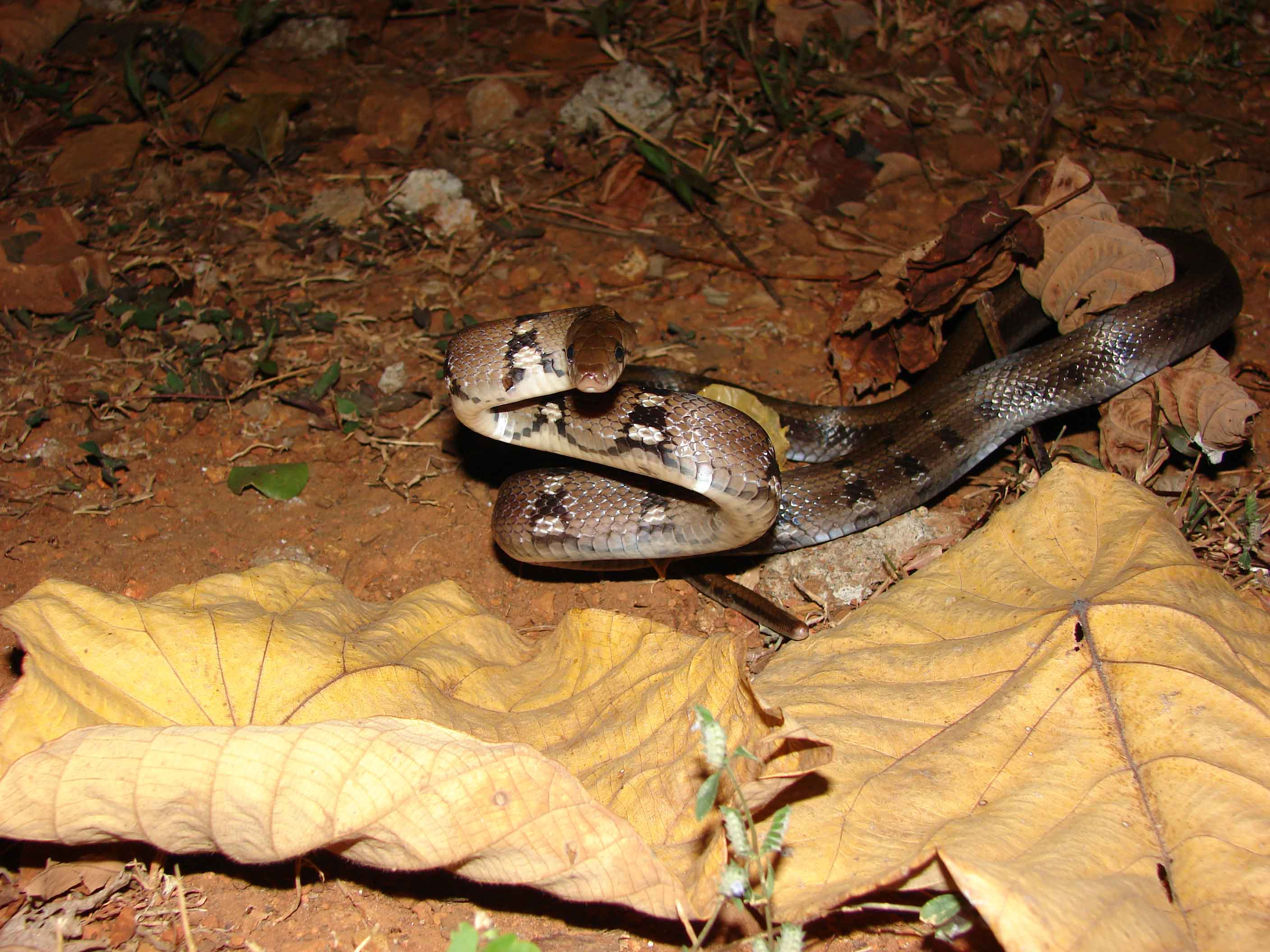 Elaphe helena monticollaris exhibiting signature threat posturing